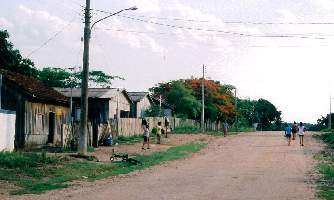 Side street in Bonito, Mato Grosso do Sul, Brazil